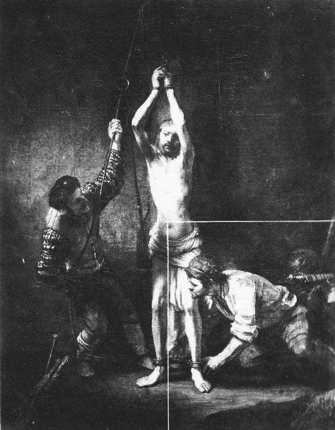 The Flagellation of Christ